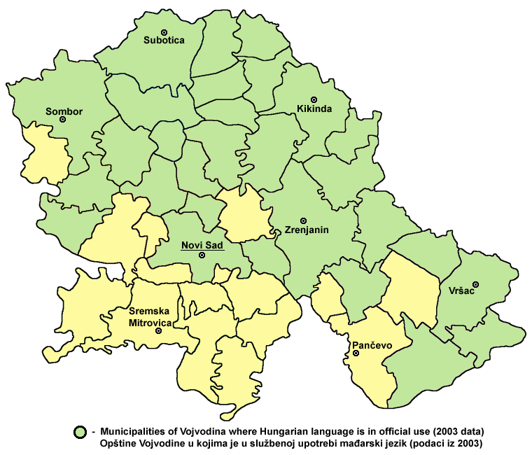 Official usage of Hungarian language in Vojvodina (2003 data).